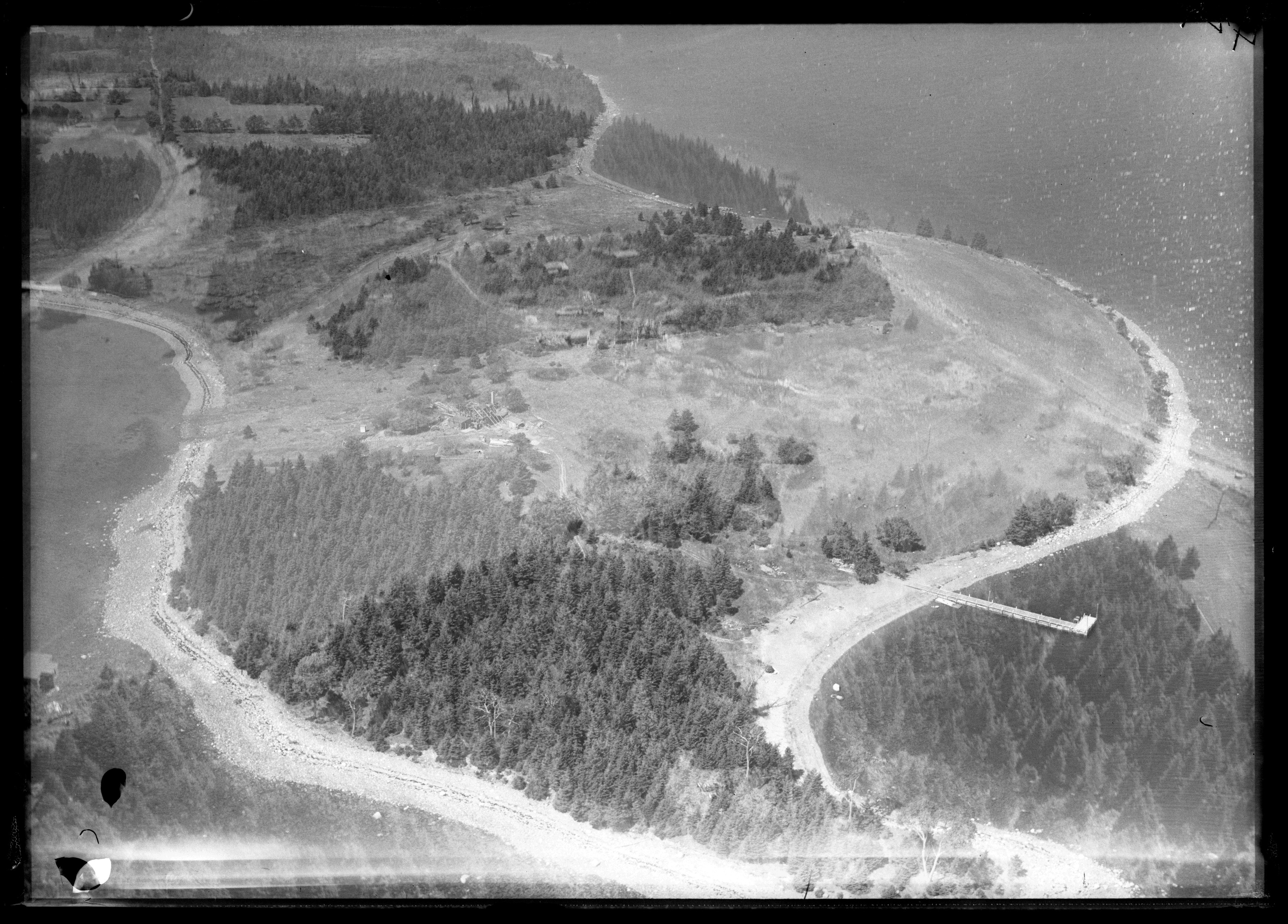 Island and Wharf, Oak Island, Nova Scotia, Canada, August 1931. Format: glass plate negative; 12.5 cm x 17.5 cm. Image appears to be double exposed.